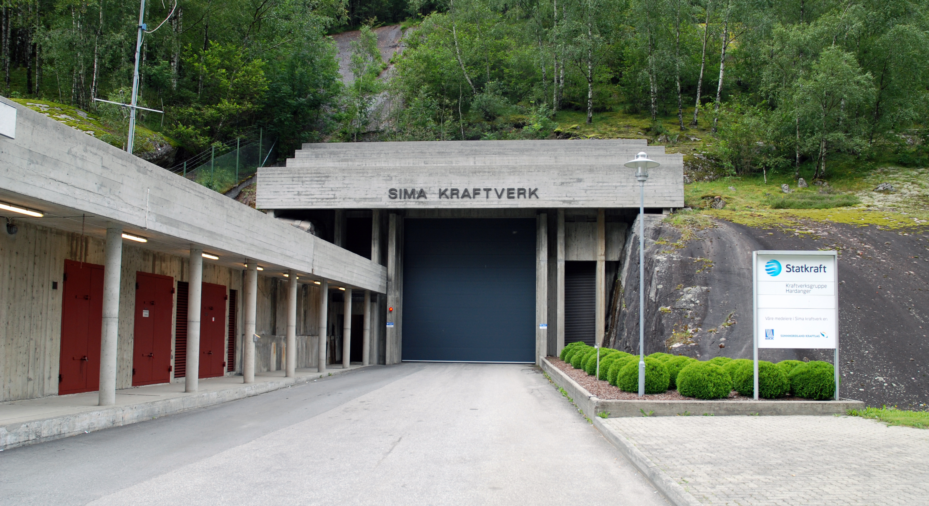 Entrance of Sima power plant in Eidfjord, Hordaland.